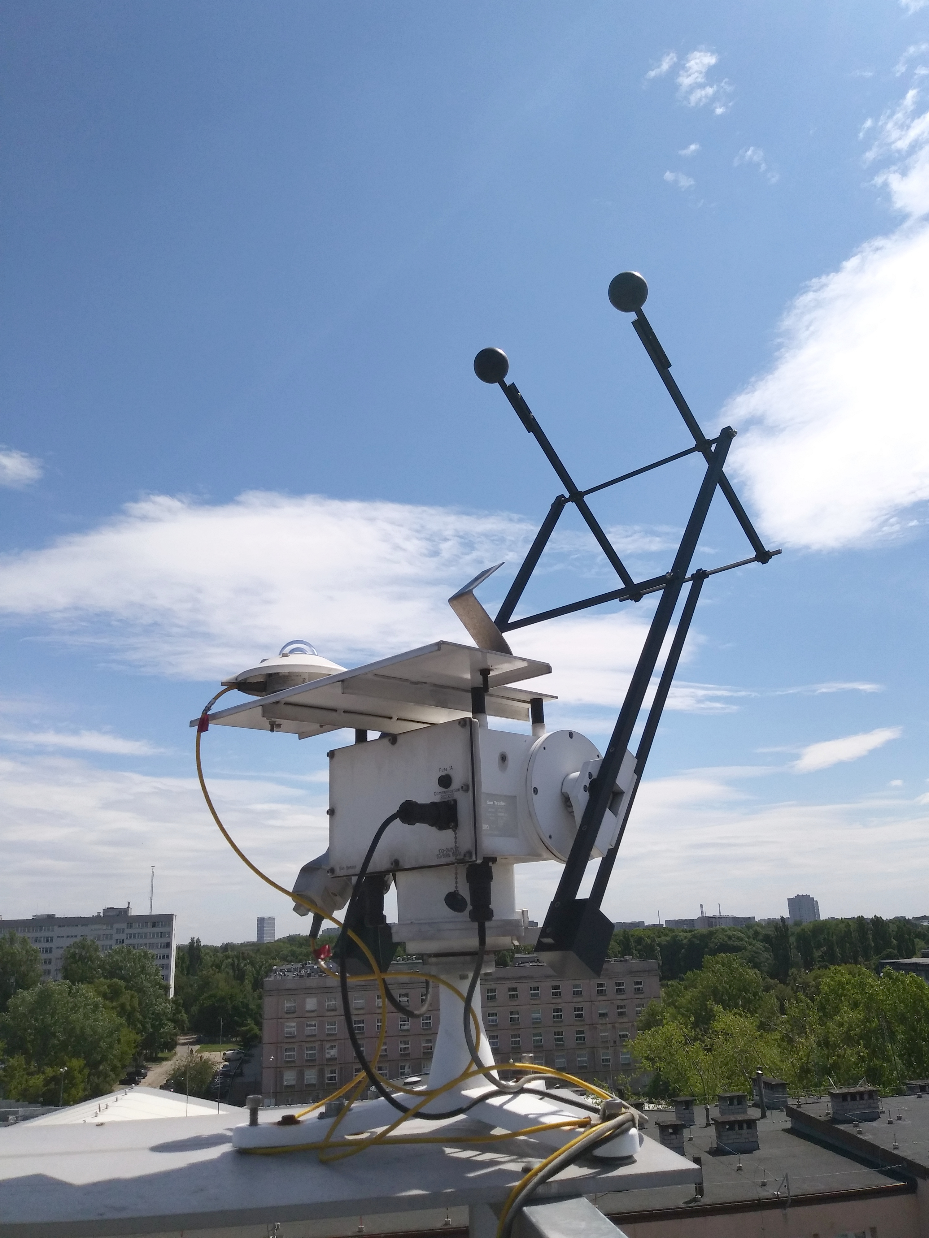 Sun tracker STR-22 (solar tracker) - a device supporting direct, diffused and total solar radiation measurements by tracking the sun, pointing the sensors toward the sun and/or screening direct solar radiation. One pyranometer mounted on the table. Photo taken at the Radiative Transfer Laboratory, Institute of Geophysics, Faculty of Physics, Unveristy of Warsaw.